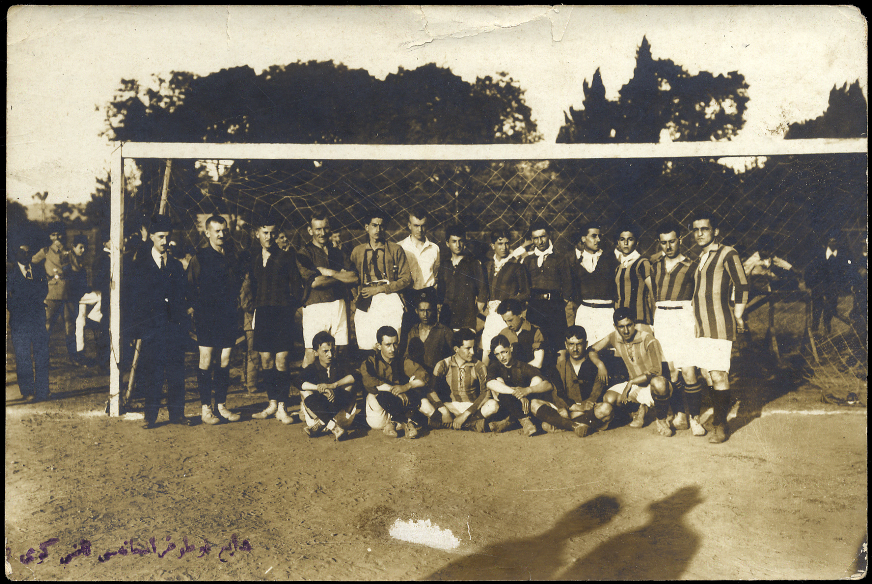 Galatasaray SK squad in 1918-19 season.